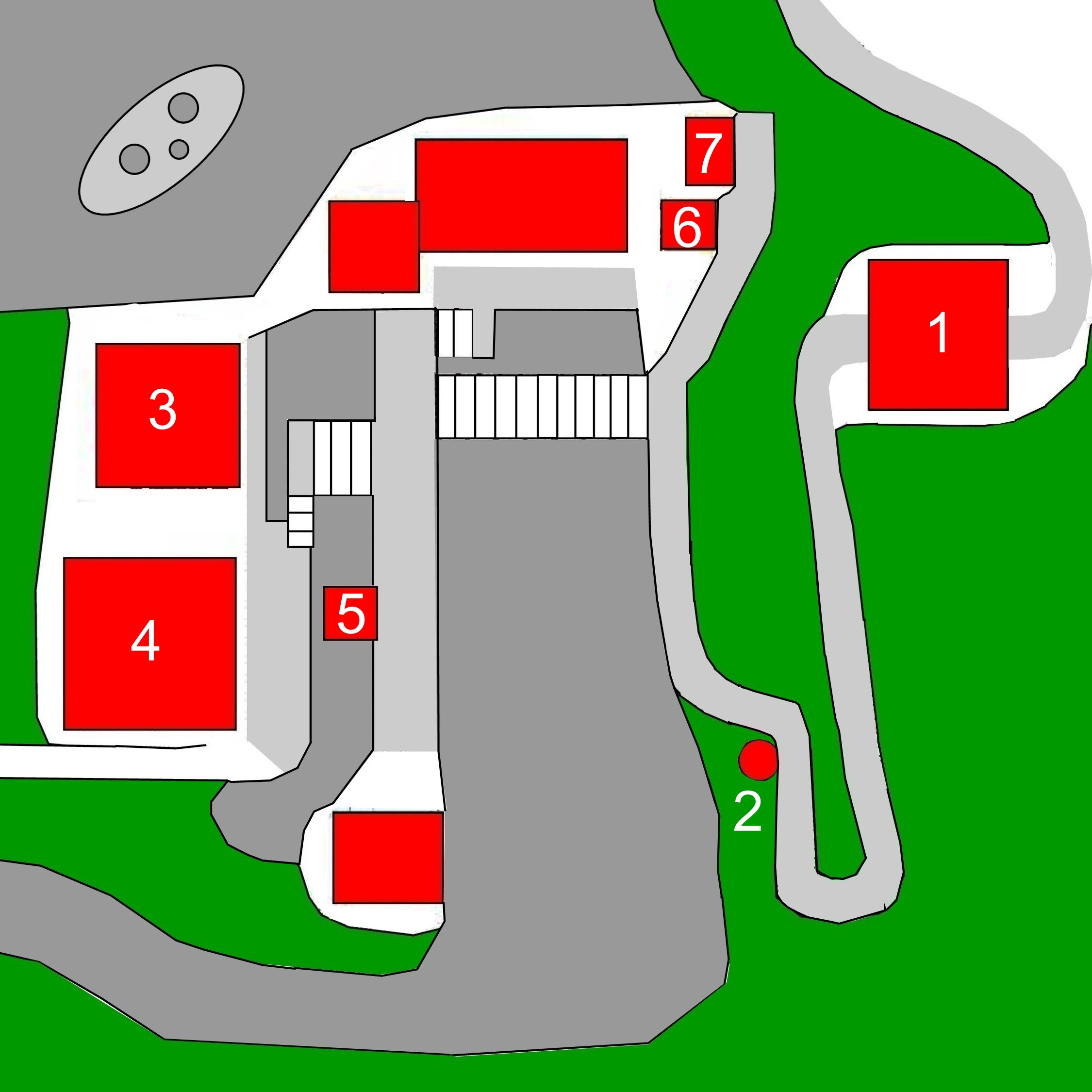 Layout of Iwaya-ji temple at Prefecture Ehime, Japan